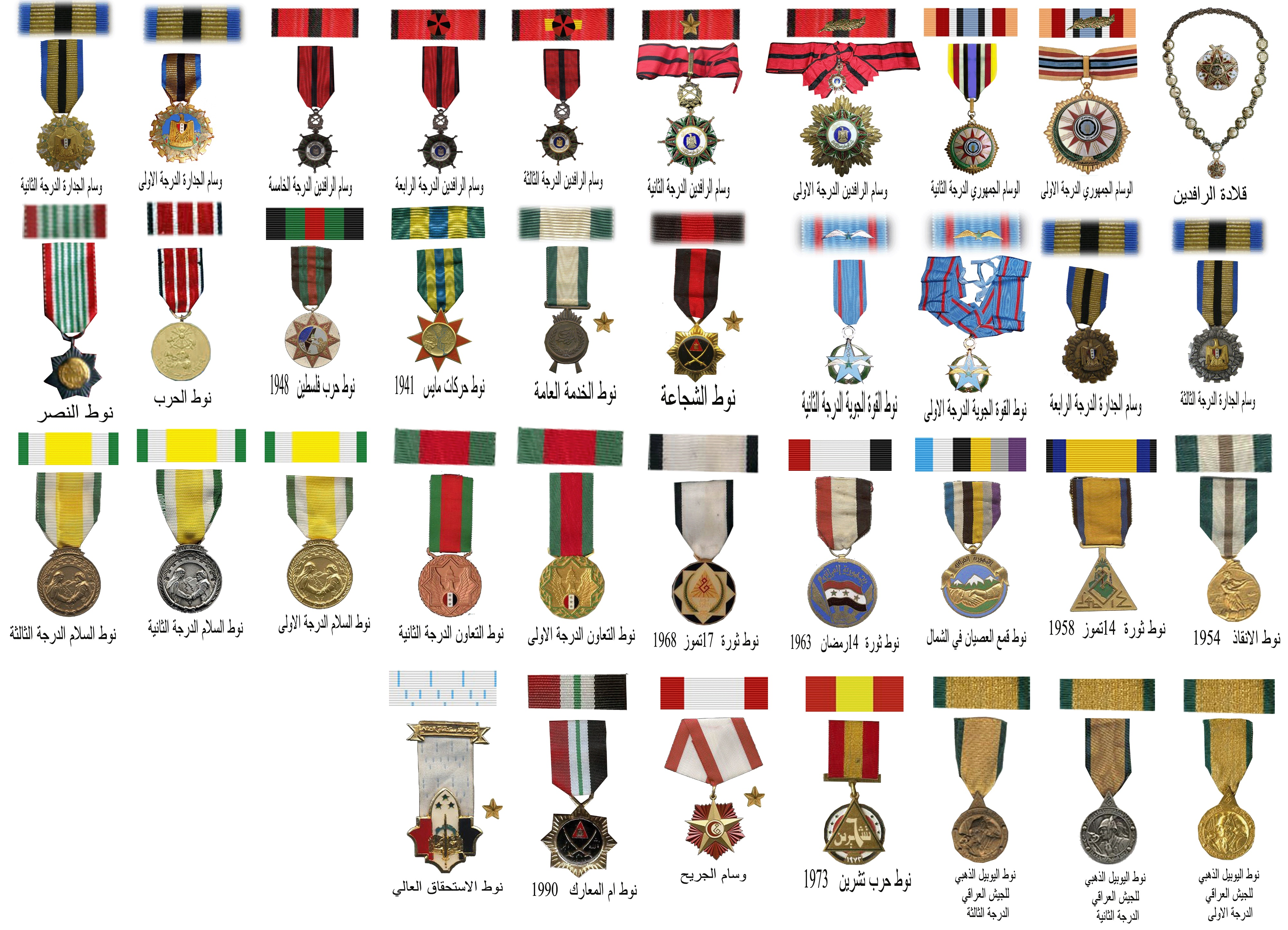 list of the military medals in the era befor 2003 in iraq